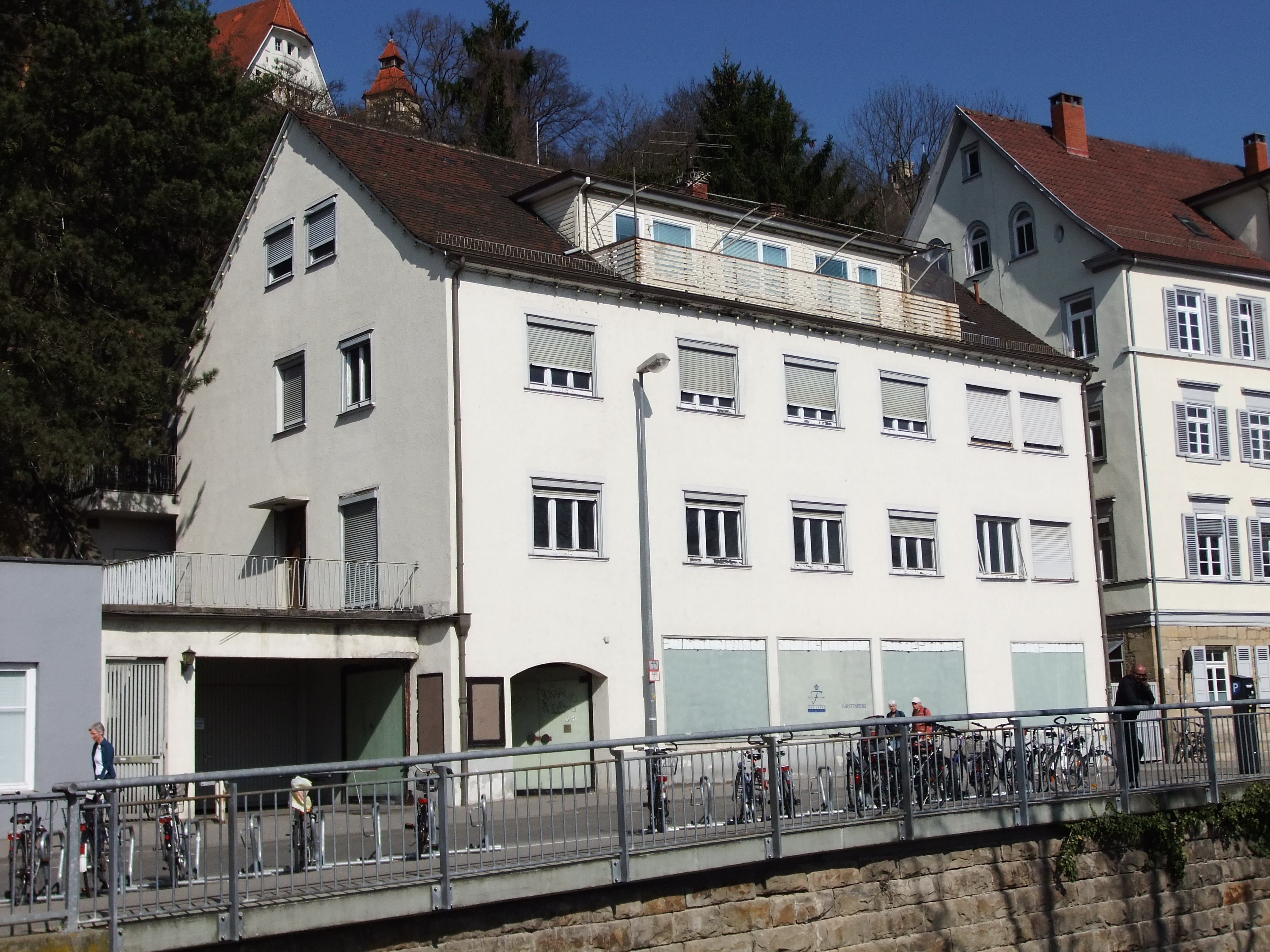 Former house of Paul Sinner, Gartenstraße 7 in Tübingen